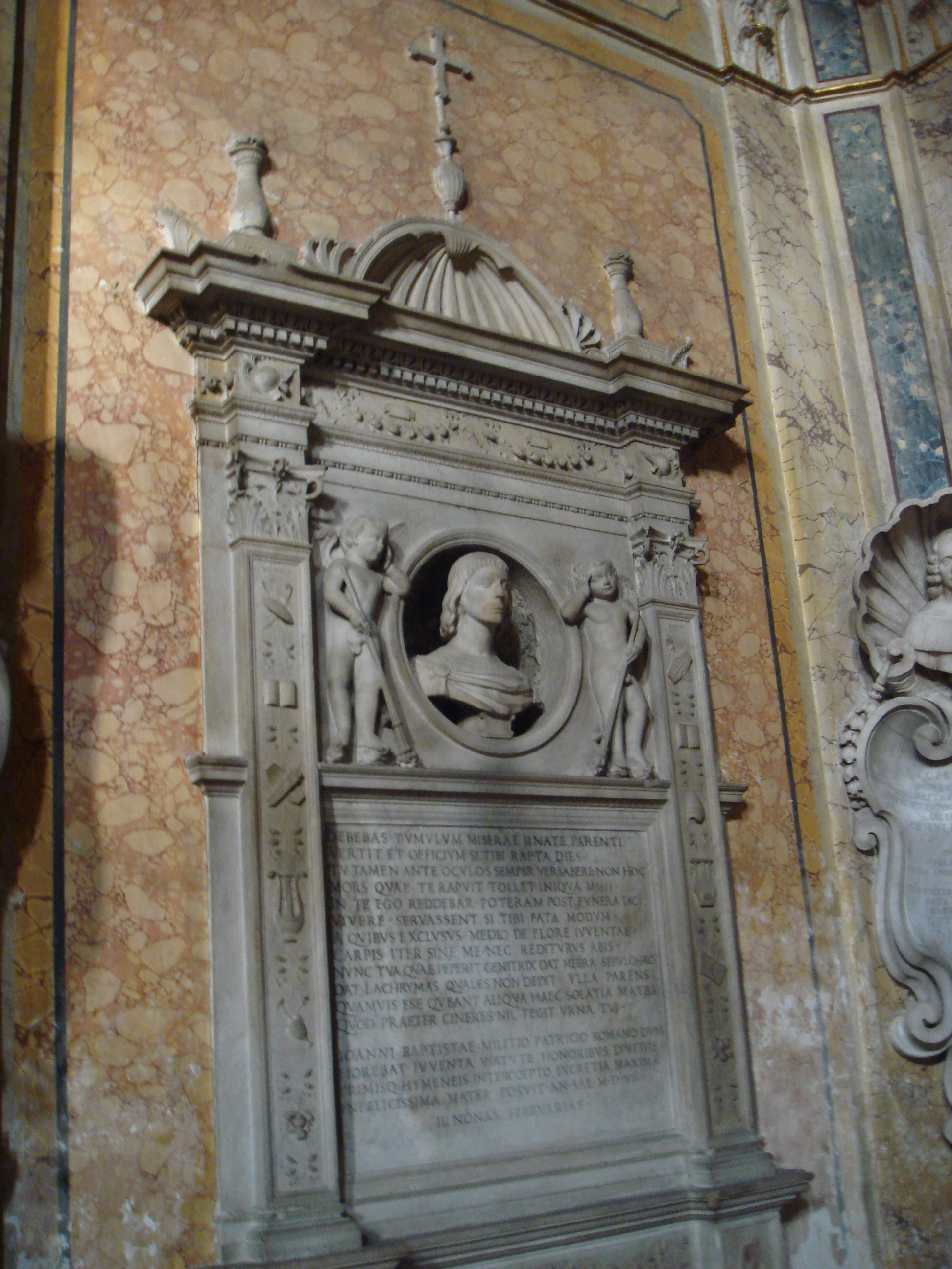 The tomb of Giovanni Battista Milizio de' Cavalieri in Santa Maria in Aracoeli in Rome. Note that the tomb and this portrait bust are not that of the composer Emilio de' Cavalieri. Emilio de' Cavalieri is buried in the chapel, but the tomb itself disappeared during later renovations. In March 2002 a replacement plaque commemorating his burial was placed in the chapel. See Kirkendale, Walter (2003). "The Myth of the "Birth of Opera" in the Florentine Camerata Debunked by Emilio de' Cavalieri: A Commemorative Lecture". The Opera Quarterly, Vol. 19, No. 4, pp. 631-643